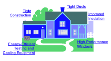 This image presents basic categories of home energy efficiency features. The image is used by the Energy Star website to graphically present links for these categories. The Energy Star website is operated by the US Environmental Protection Agency and the US Department of Energy.